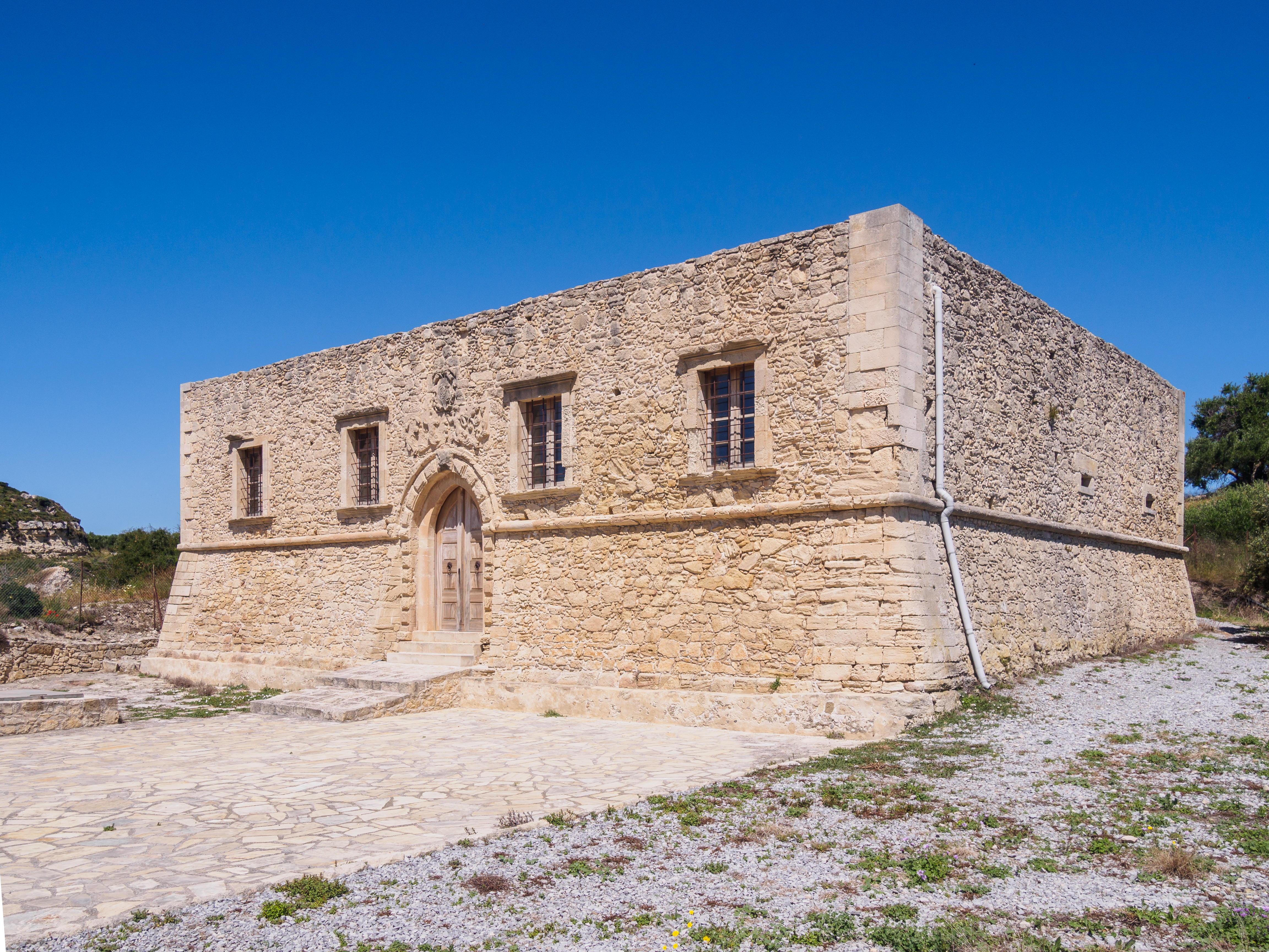 The venetial villa de Mezzo at Etia, Sitia«Ενετική έπαυλη De Μezzo»